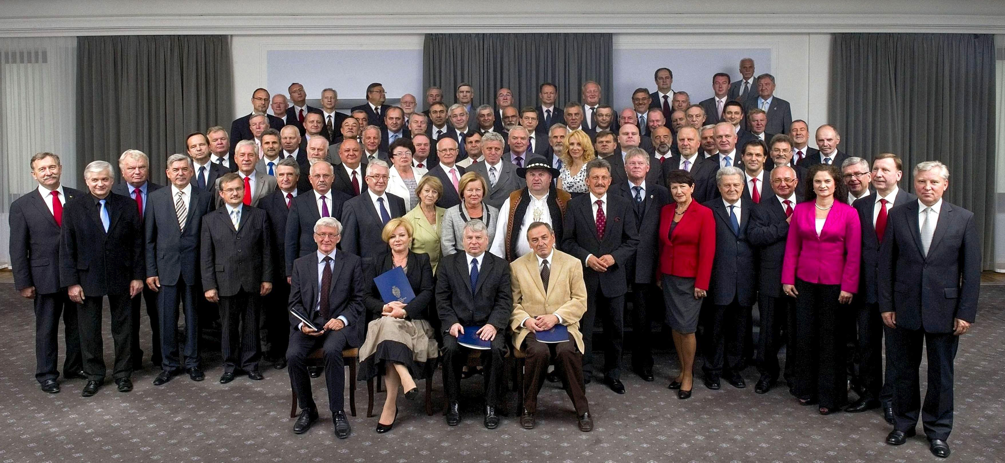 Senators of the 7th term Senate of the Republic of Poland